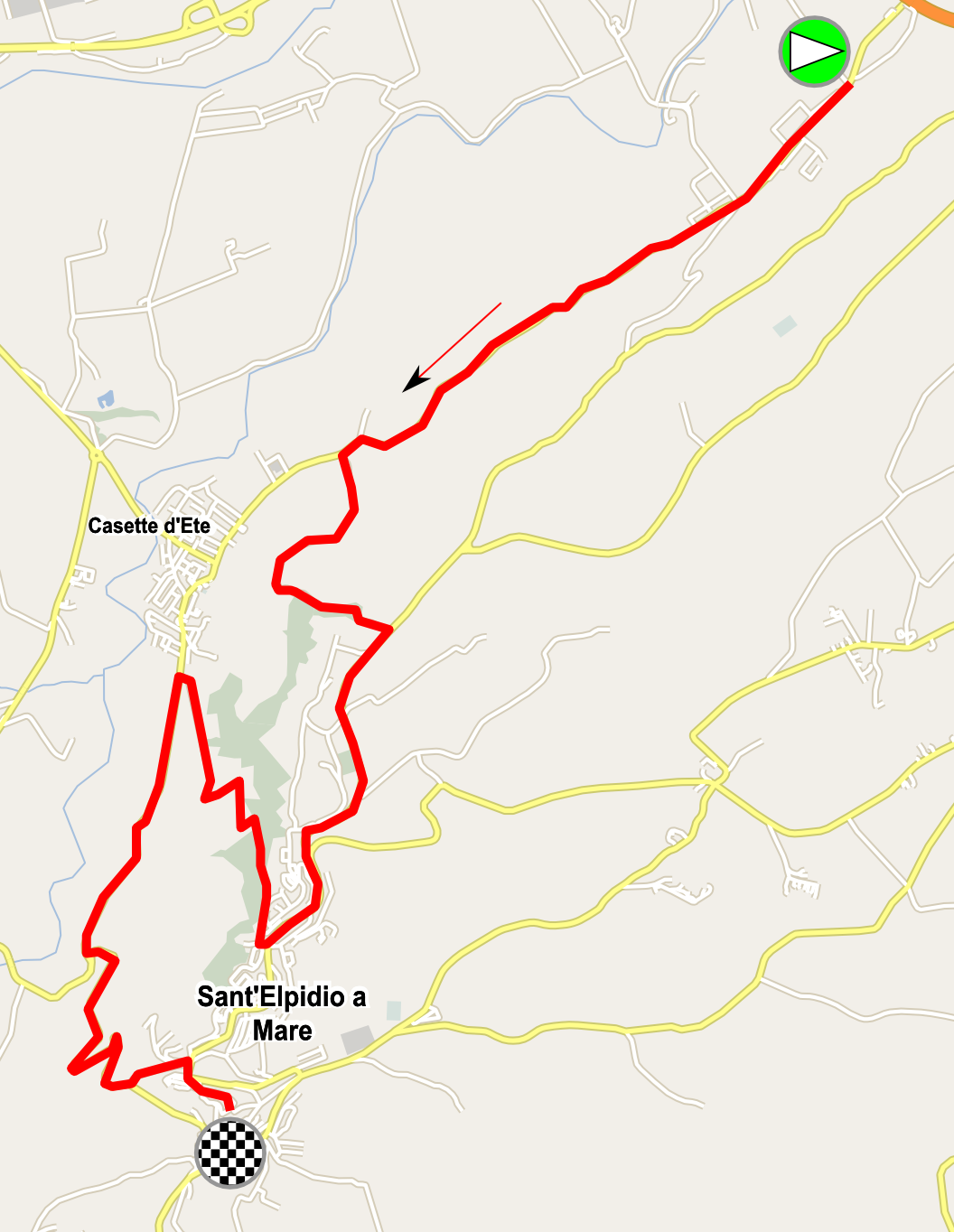 Map of stage 5 of Giro donne 2017.